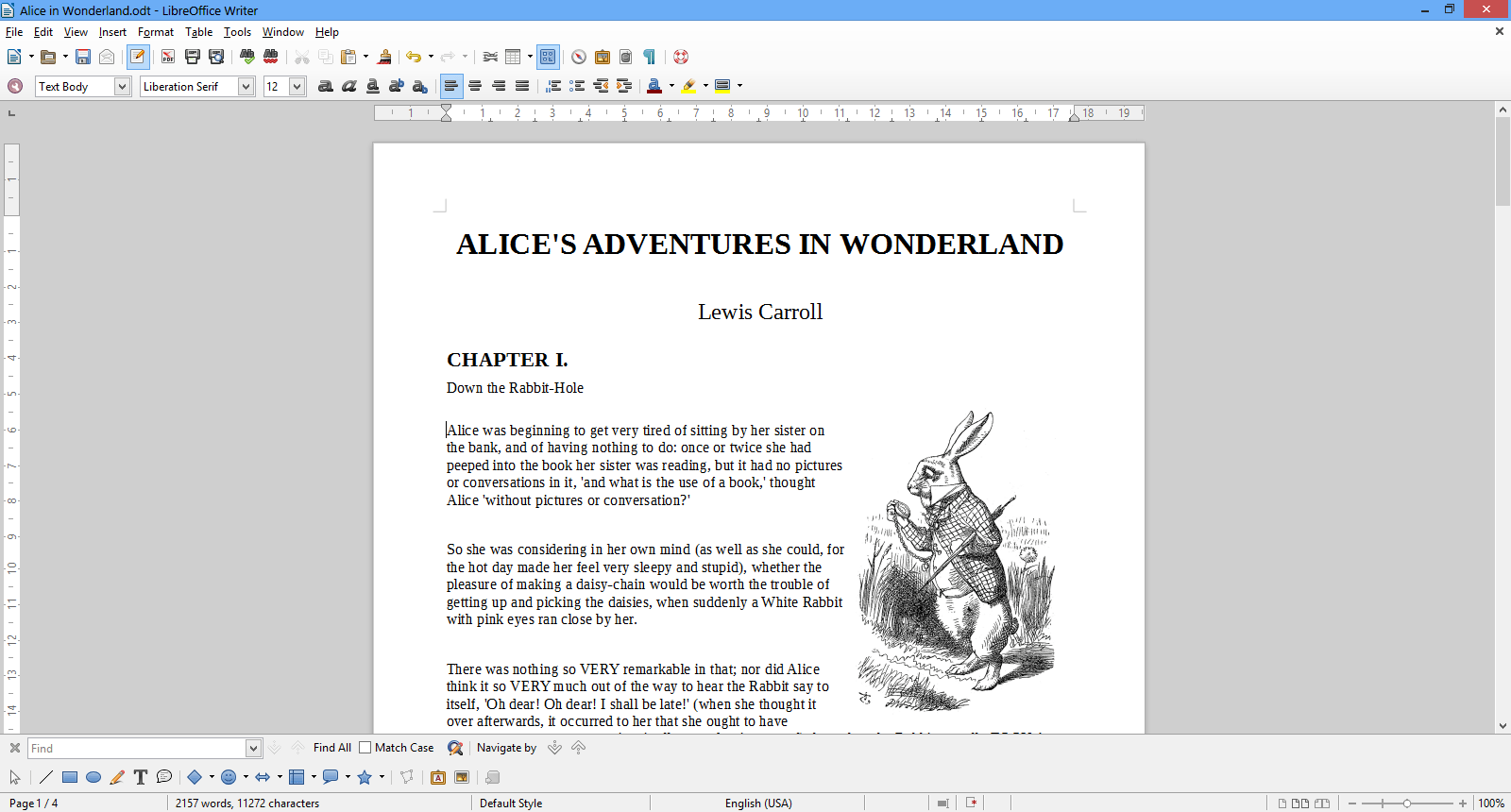 Screenshot of LibreOffice 4.3 Writer